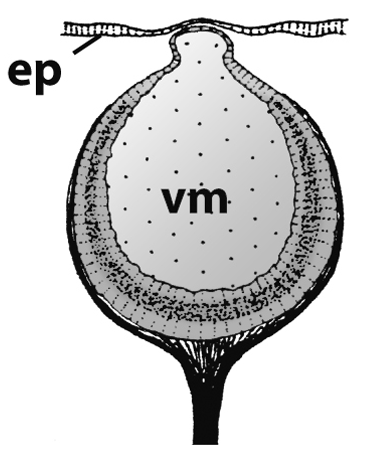 Closed eye of Lunella coronata (Gmelin, 1791) (synonyms: Turbo coronatus, Turbo creniferus). ep = epidermis; vm = vitreous mass.